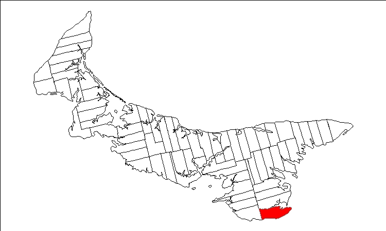 Public domain map of Prince Edward Island created by User:Plasma east with data courtesy of Geogratis, modified to show townships. Released under GFDL (self).